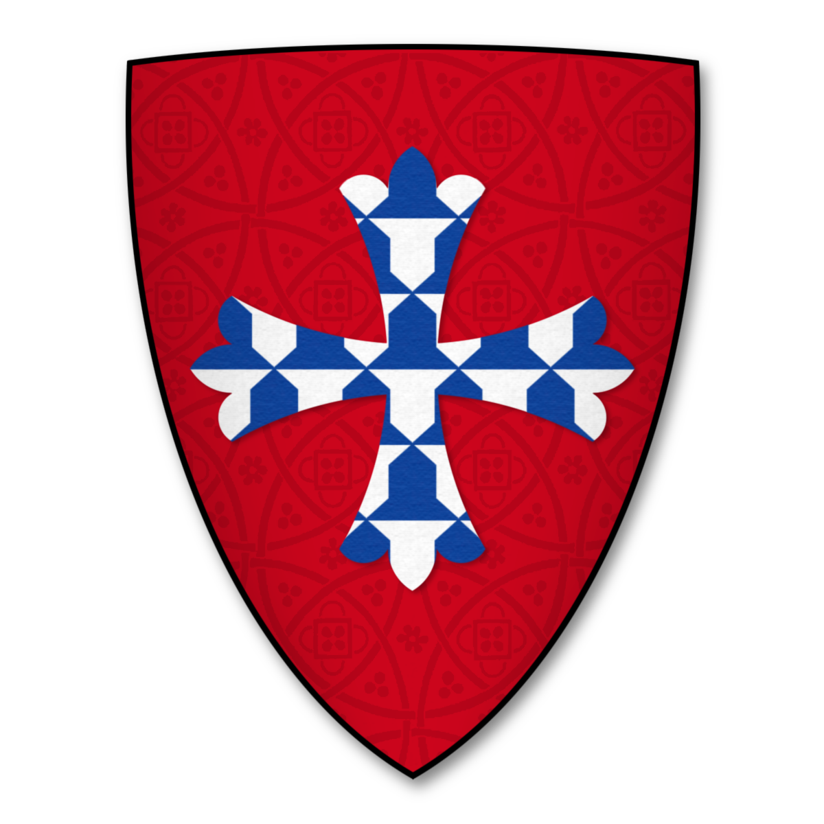 Coat of arms of William de Fortibus, Earl of Albemarle. Blazon: Gules a cross patonce vair.